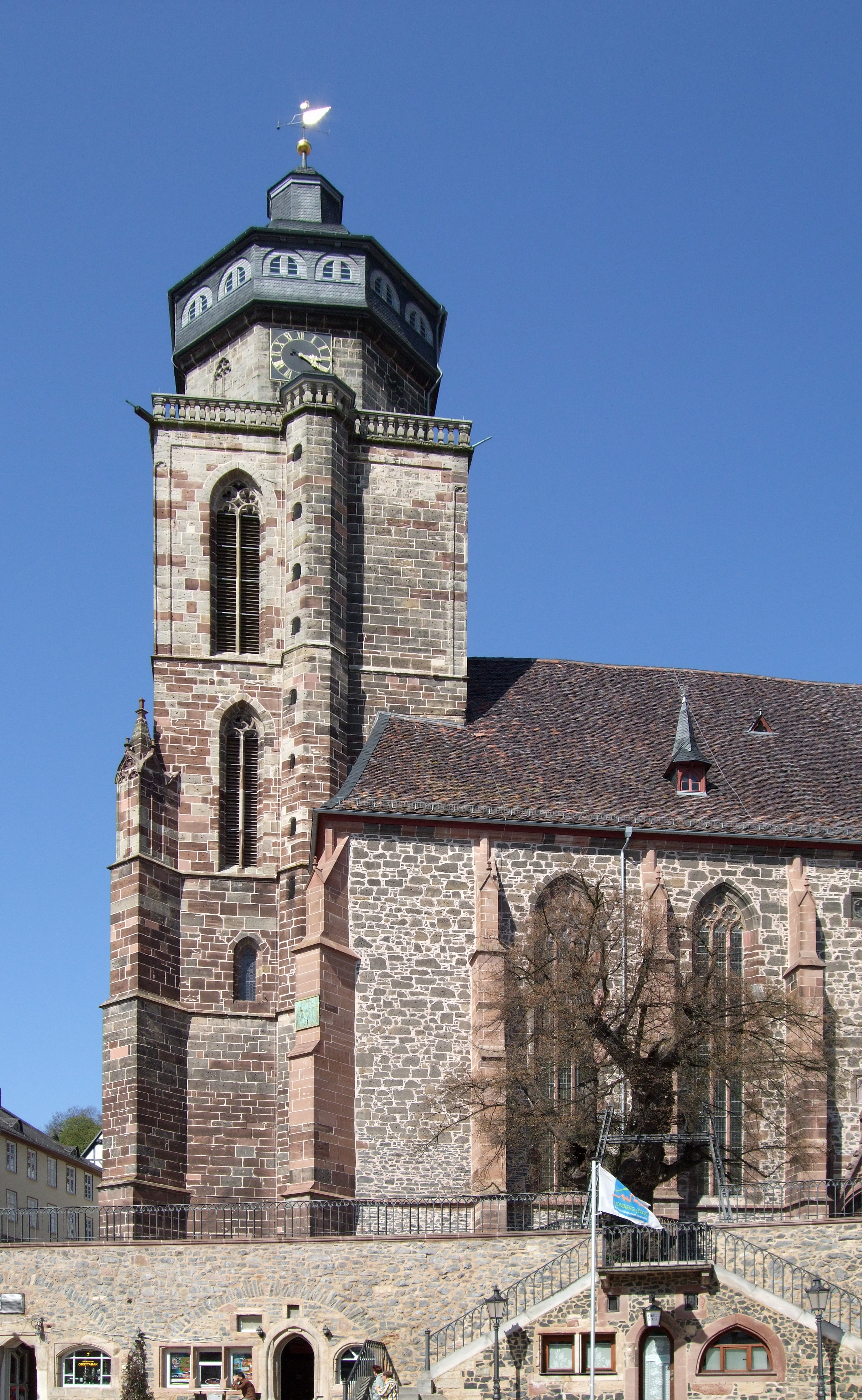 St. Marien Church in Homberg (Efze)